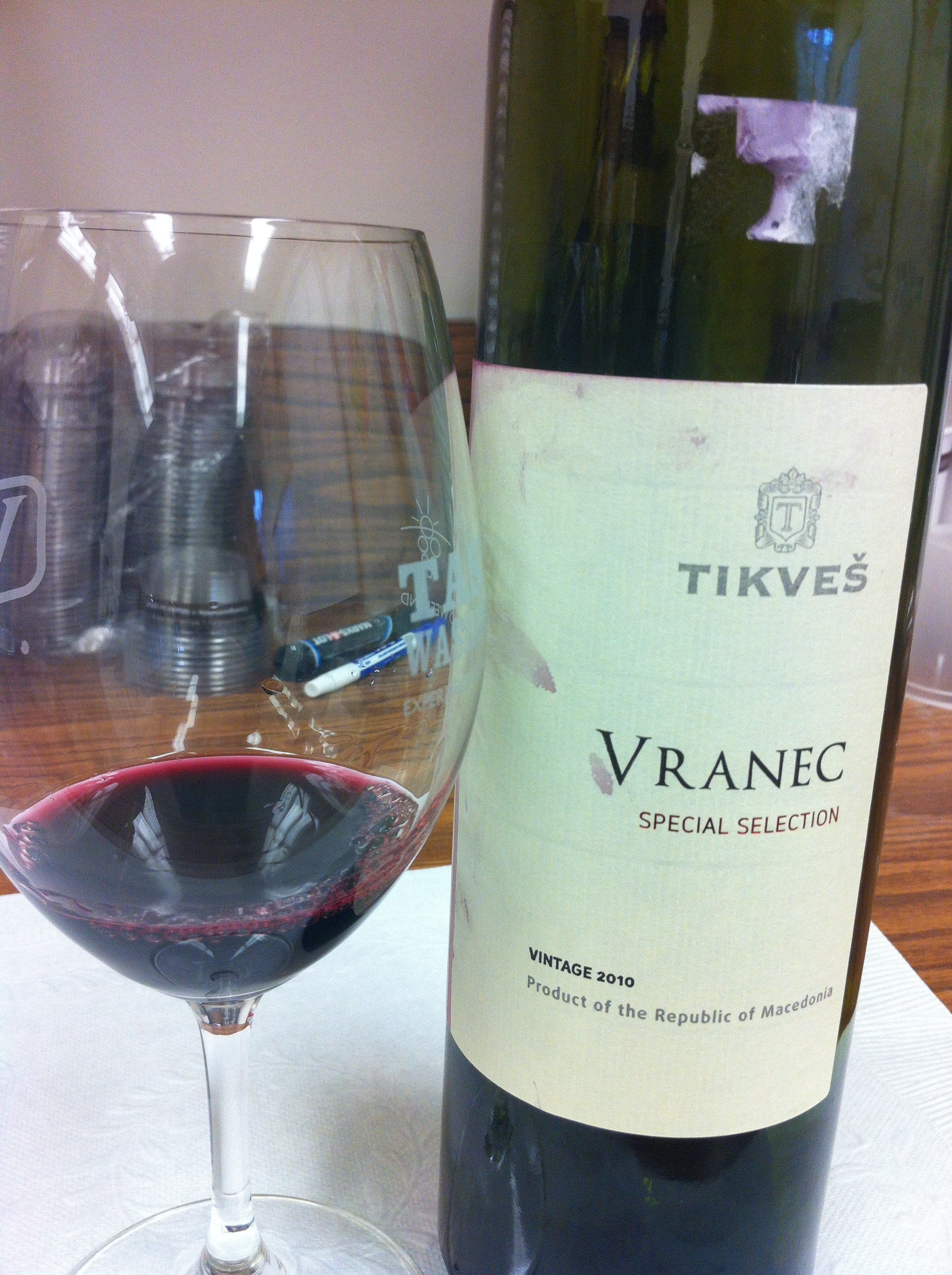 Red wine from Macedonia made from the Vranec grape (sometimes spelled Vranac)